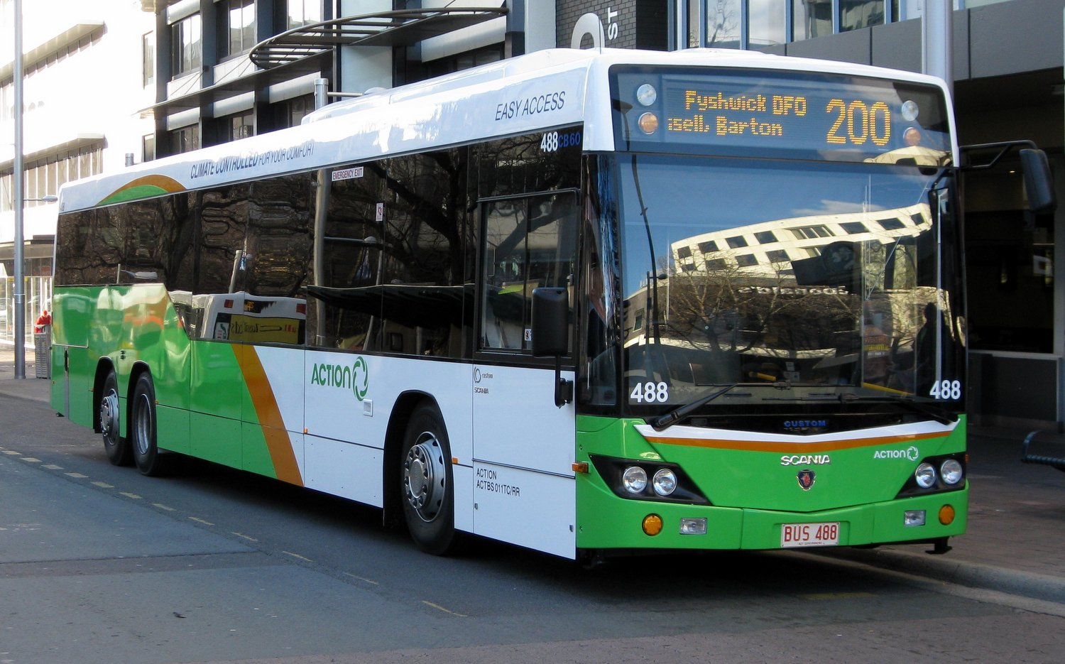 ACTION Bus 488, Scania K320UB, performing Red Rapid Route 200 in City Bus Station, Canberra